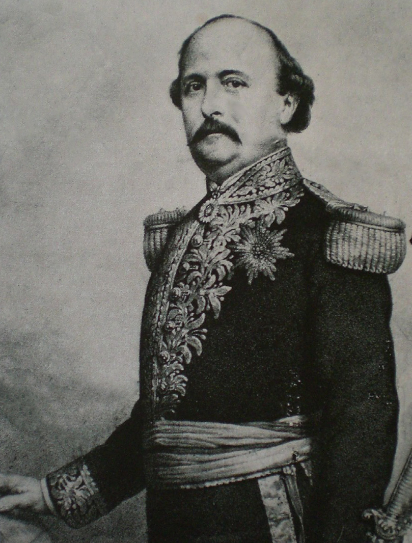 Portrait of Juan Crisóstomo Falcón